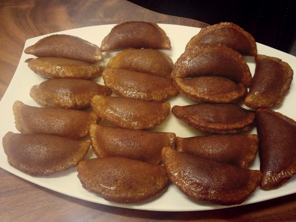 Jewish holidays